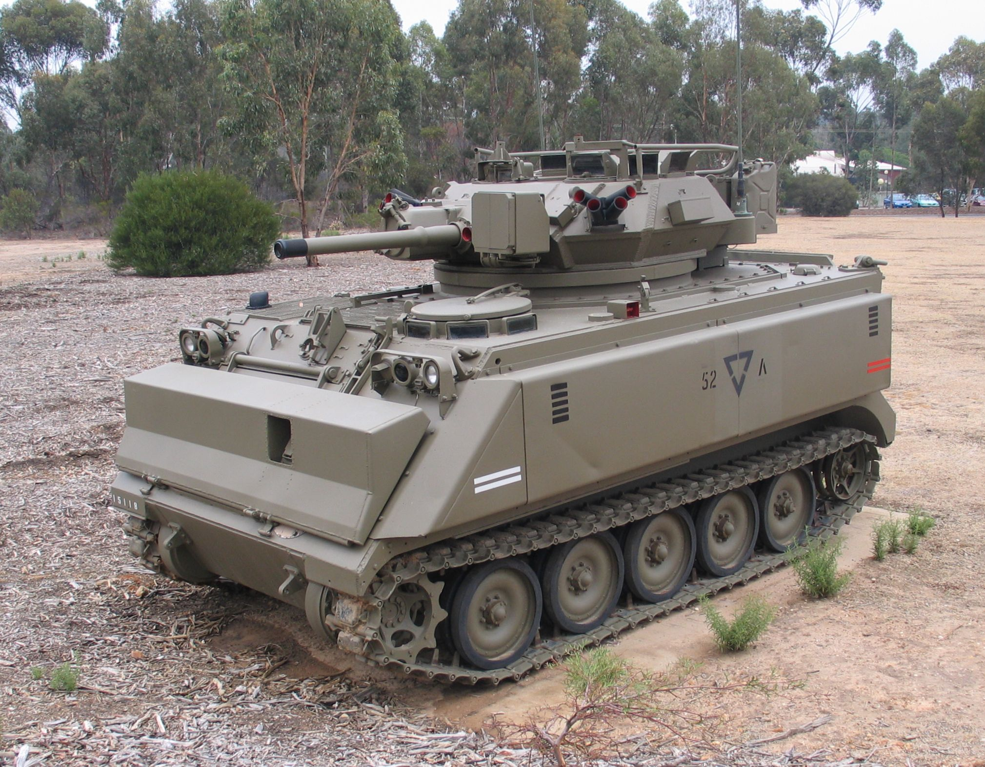 M113 Medium Reconnaissance Vehicle in the Puckapunyal Army Camp, Victoria, Australia.